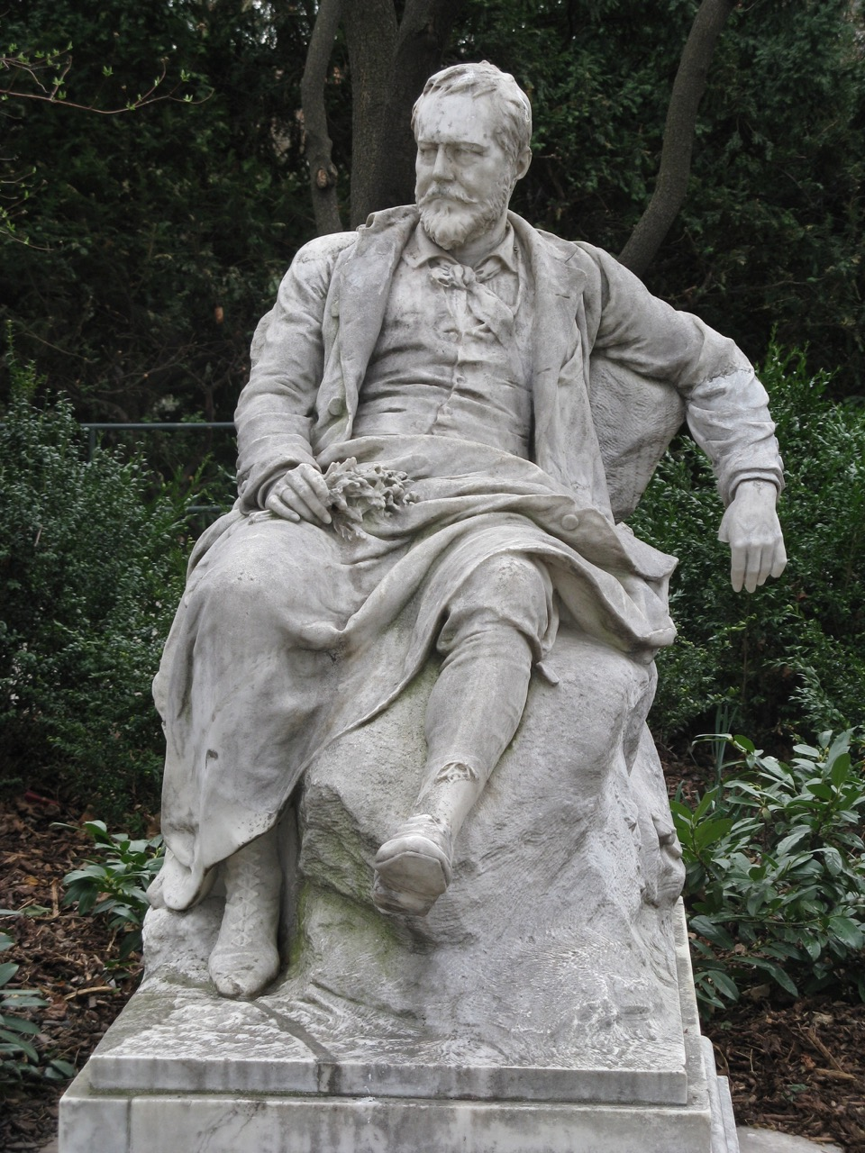 Emil Jakob Schindler monument, Vienna by Edmund Hellmer